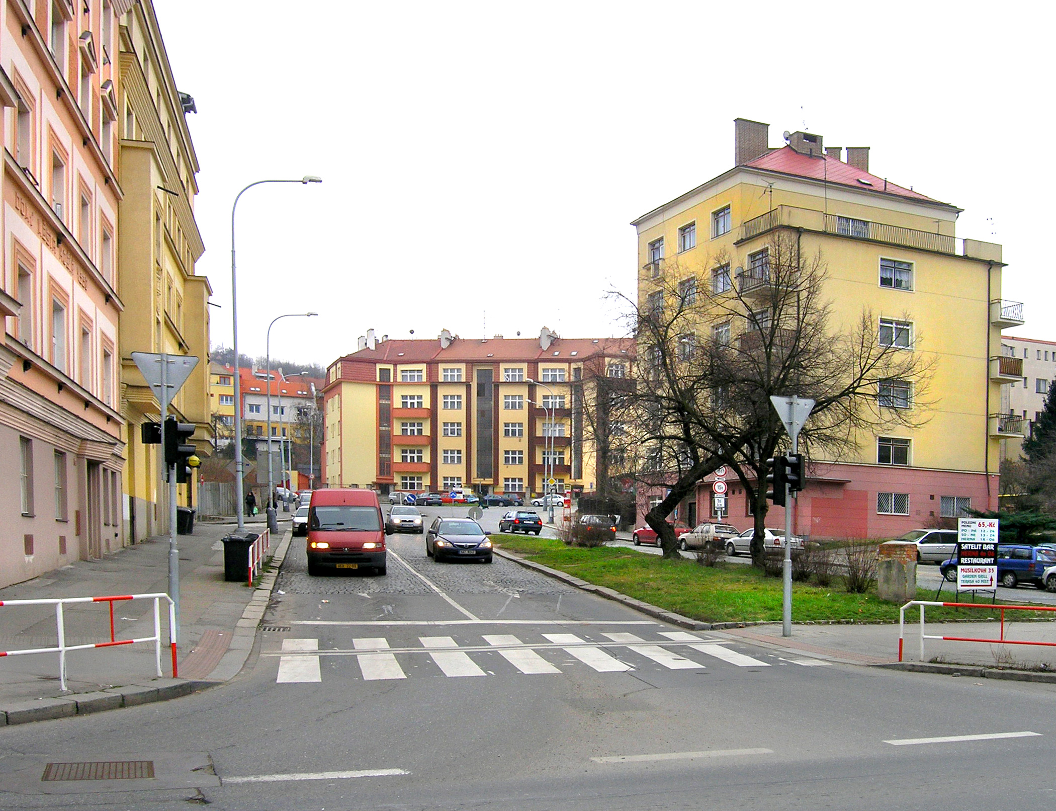 Local part Kavalírka at Košíře, Prague